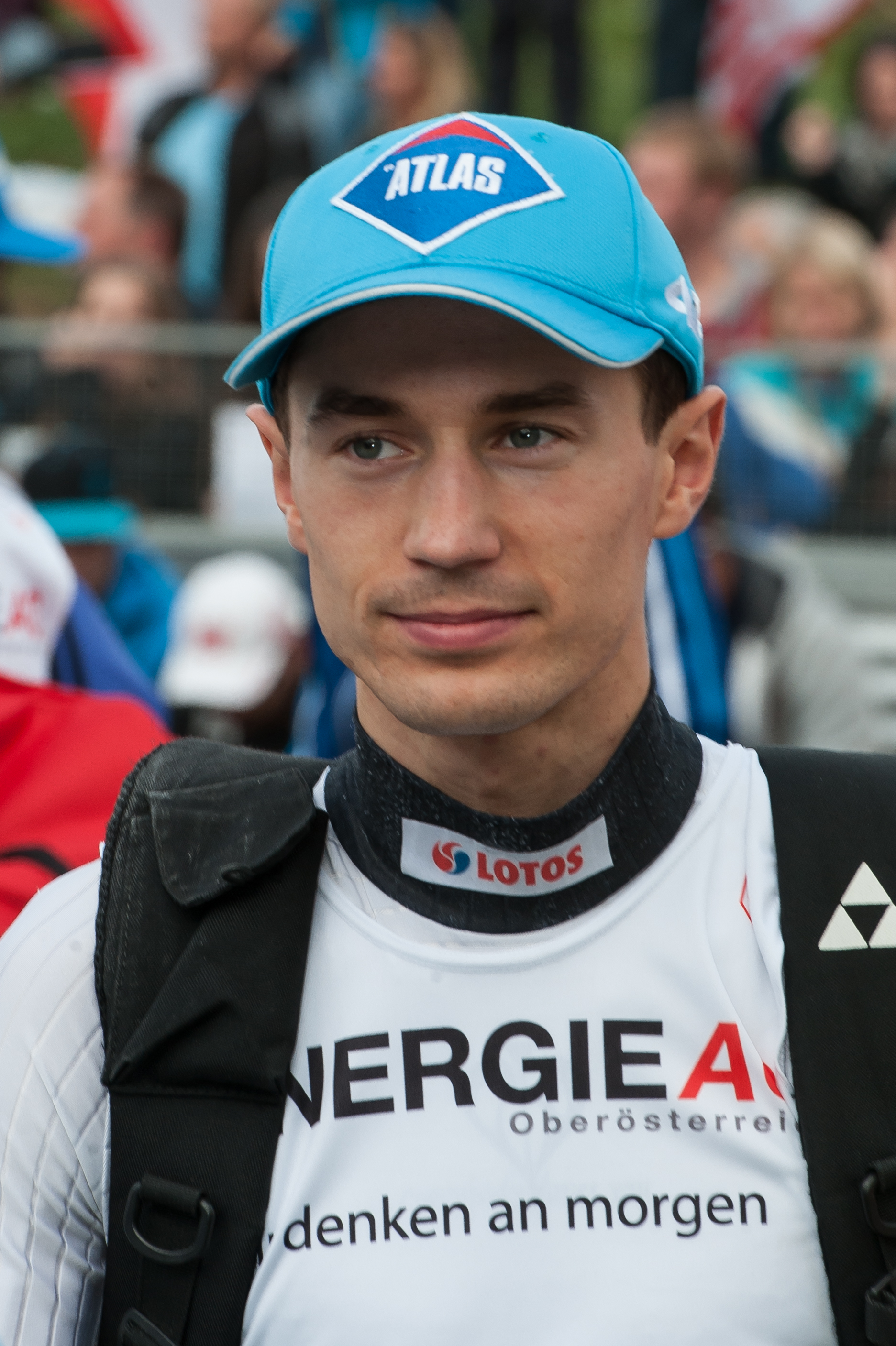 Fis Ski Jumping Summer Grand Prix in Hinzenbach, Upper Austria, 2015-09-27: Kamil Stoch